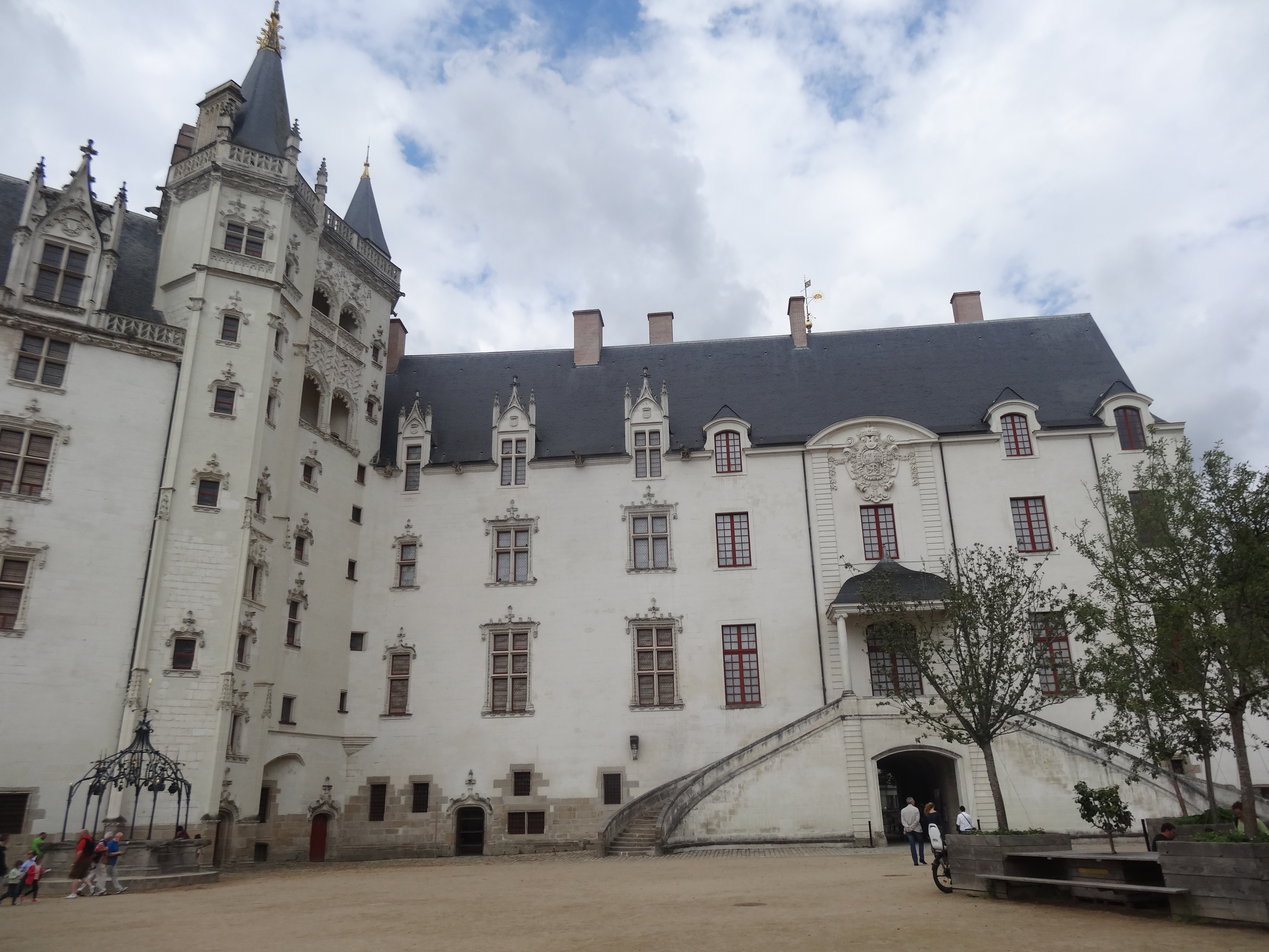 Château des ducs de Bretagne (Nantes)